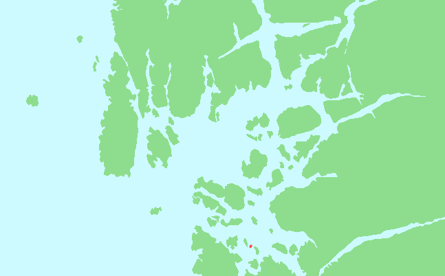 Locator map of Lindøy, Rogaland, Norway